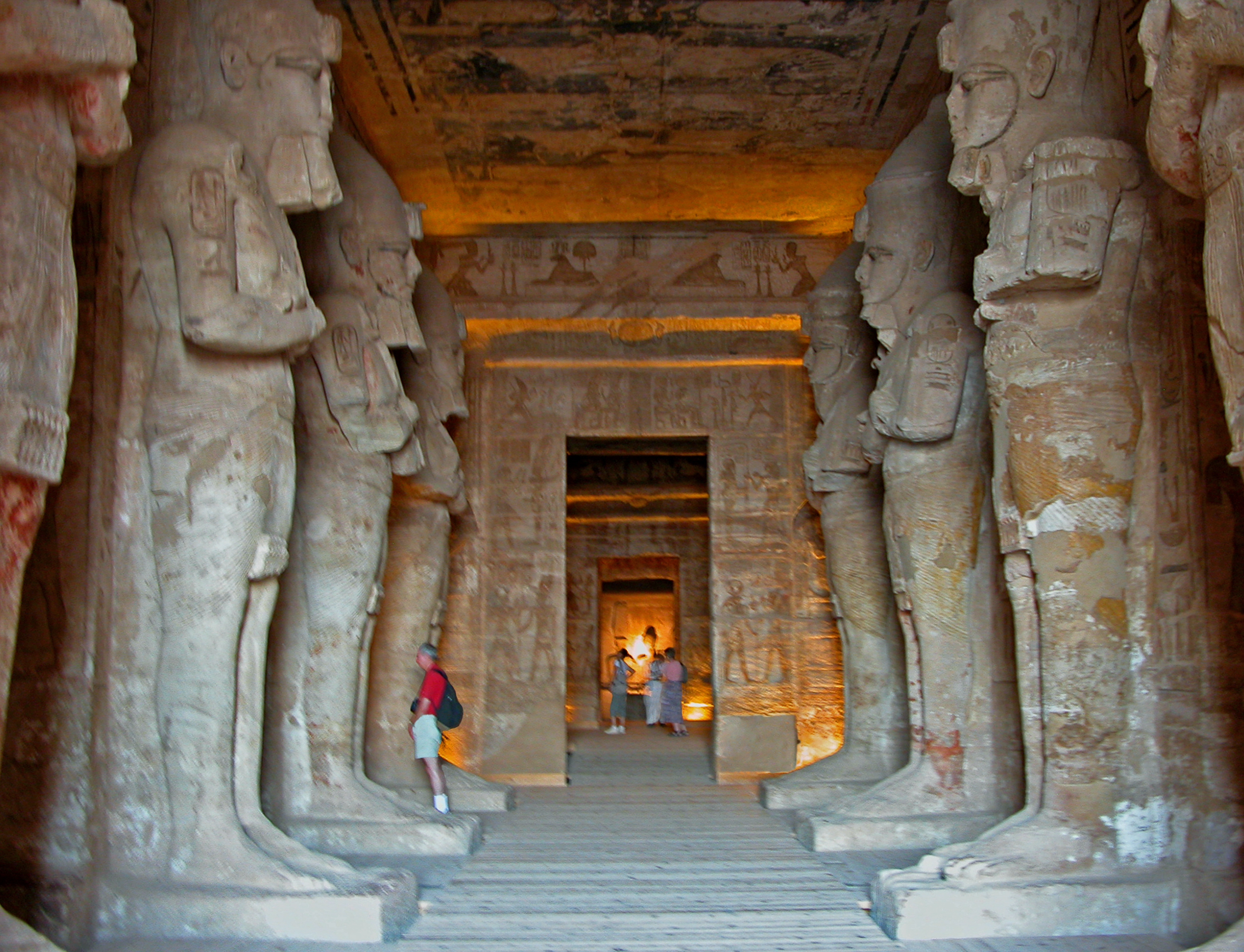 In the first hall of the Temple of Rameses II are eight Osiris pillars. The ones on the left wear the white crown of Upper Egypt and the ones on the right wear the double crown of the two lands. Abu Simbel, Egypt